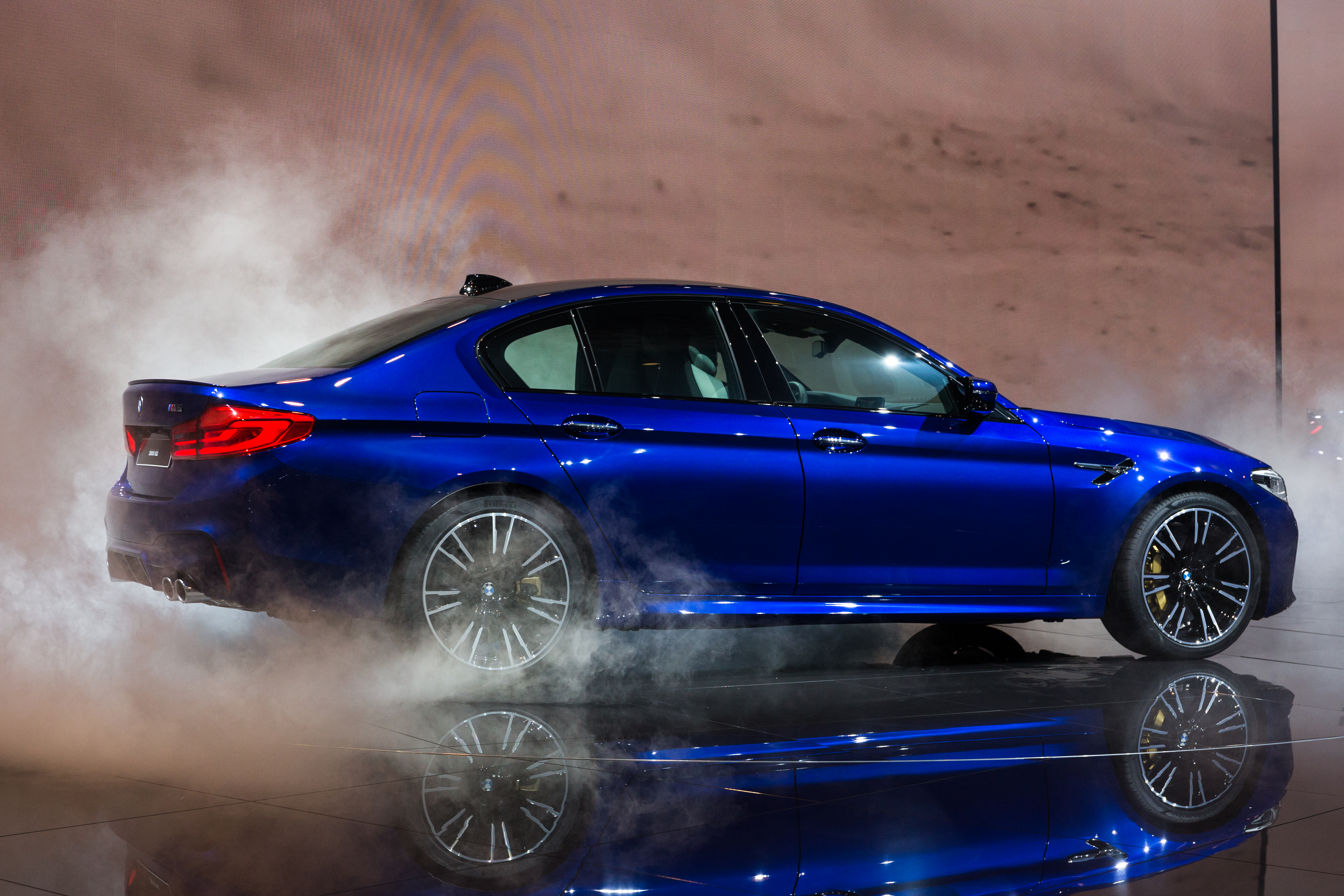 BMW M5